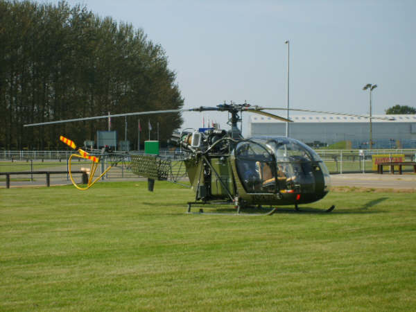 A Blue Eagles Sud Aviation Alouette at Britcar